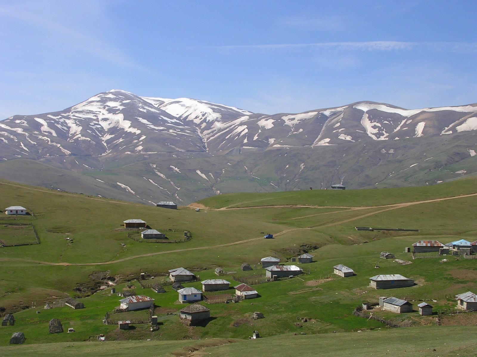 View of Asalam a city in Gilan Province, Iran.